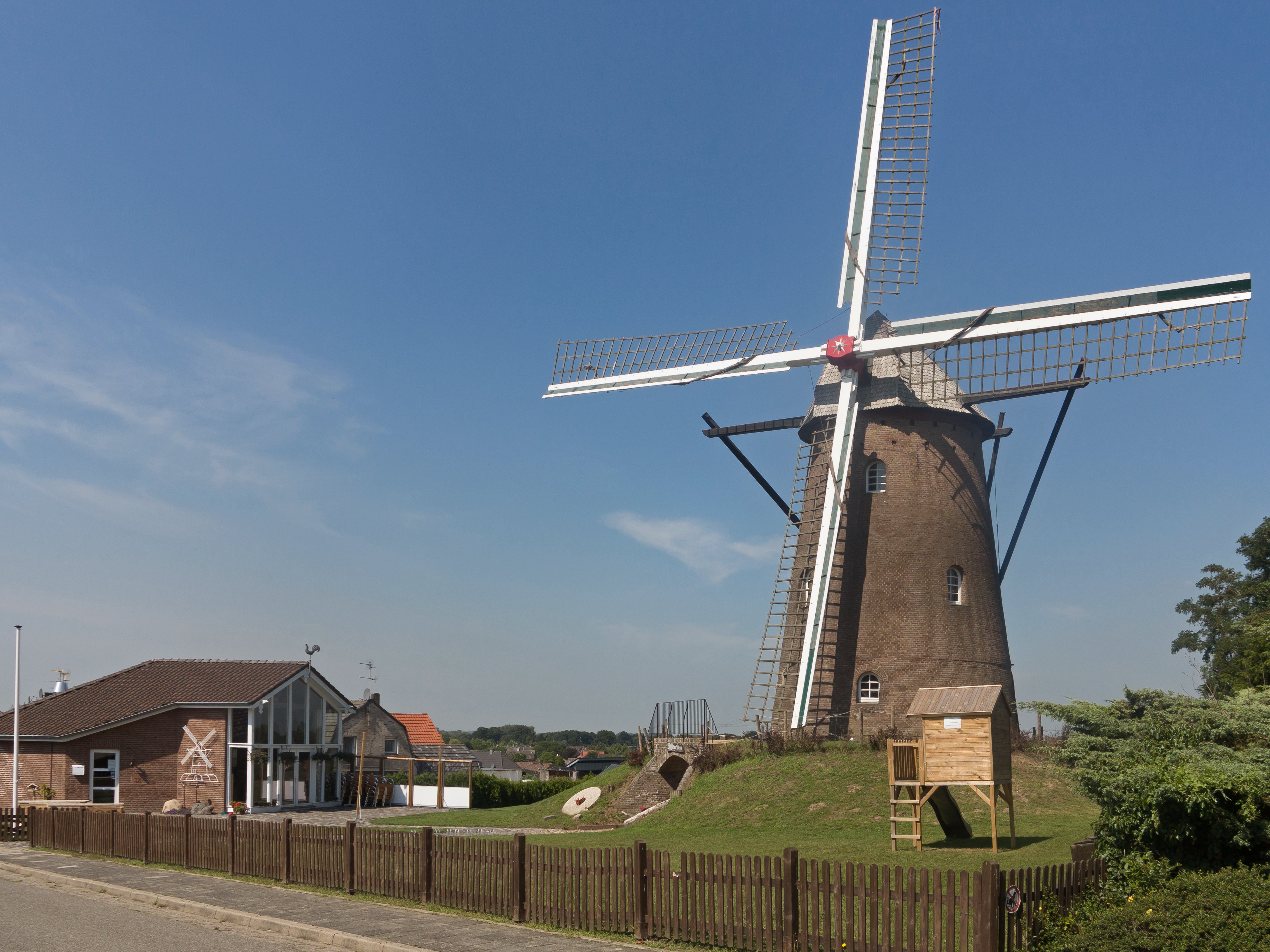 Elten, windmill: "Gerritzens Mühle" This is a photograph of an architectural monument.